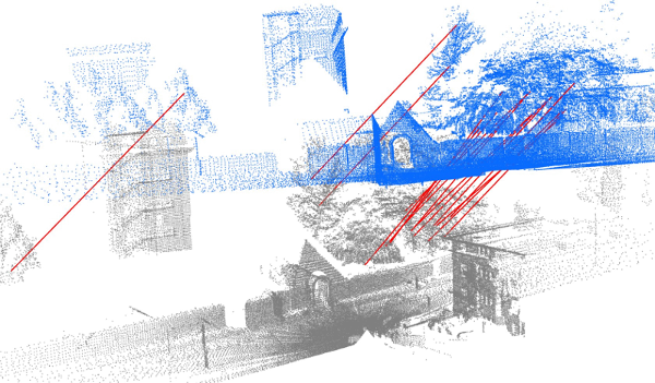 Two point sets from different 3D scans of the same environment (black and blue). The transformation to register the point sets is shown in red. File:Registration closeup.png shows the point sets aligned successfully.